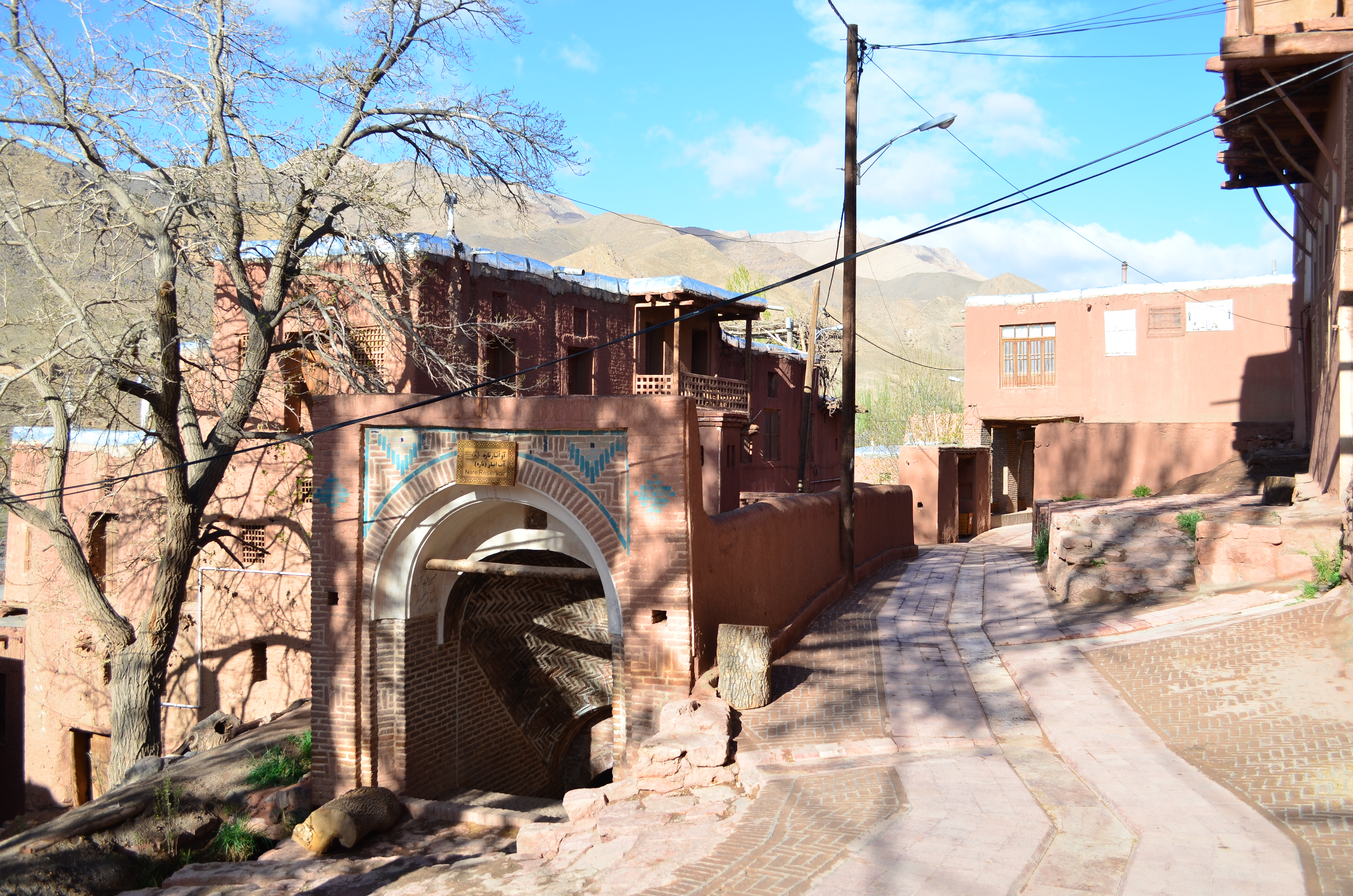 The Abyaneh is a village in Iran.